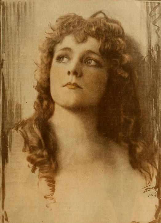 Alice Mann illustrated in Motion Picture Magazine, March 1918.